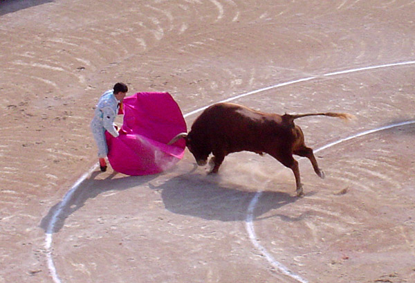 Bull attacks matador, Arles, France Image by User:ChrisO